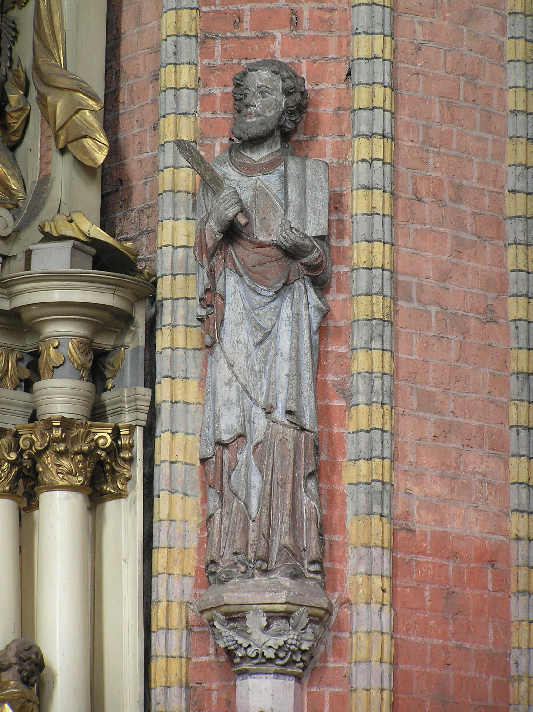 Chełmno, church of the Blessed Virgin Mary, statue of Saint Batholomew